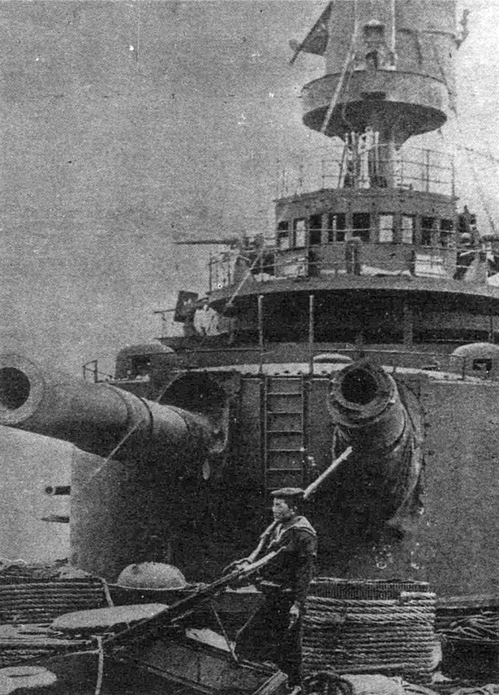 Damaged the Imperial Russian battleship Oriol, 1905.